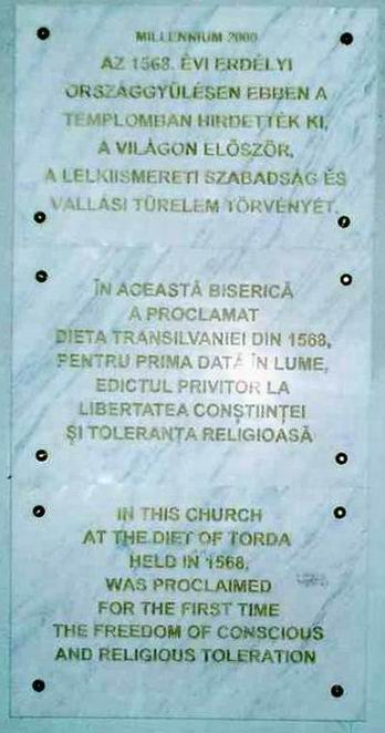 Commemorative plate, of the Greek-Catholic Church